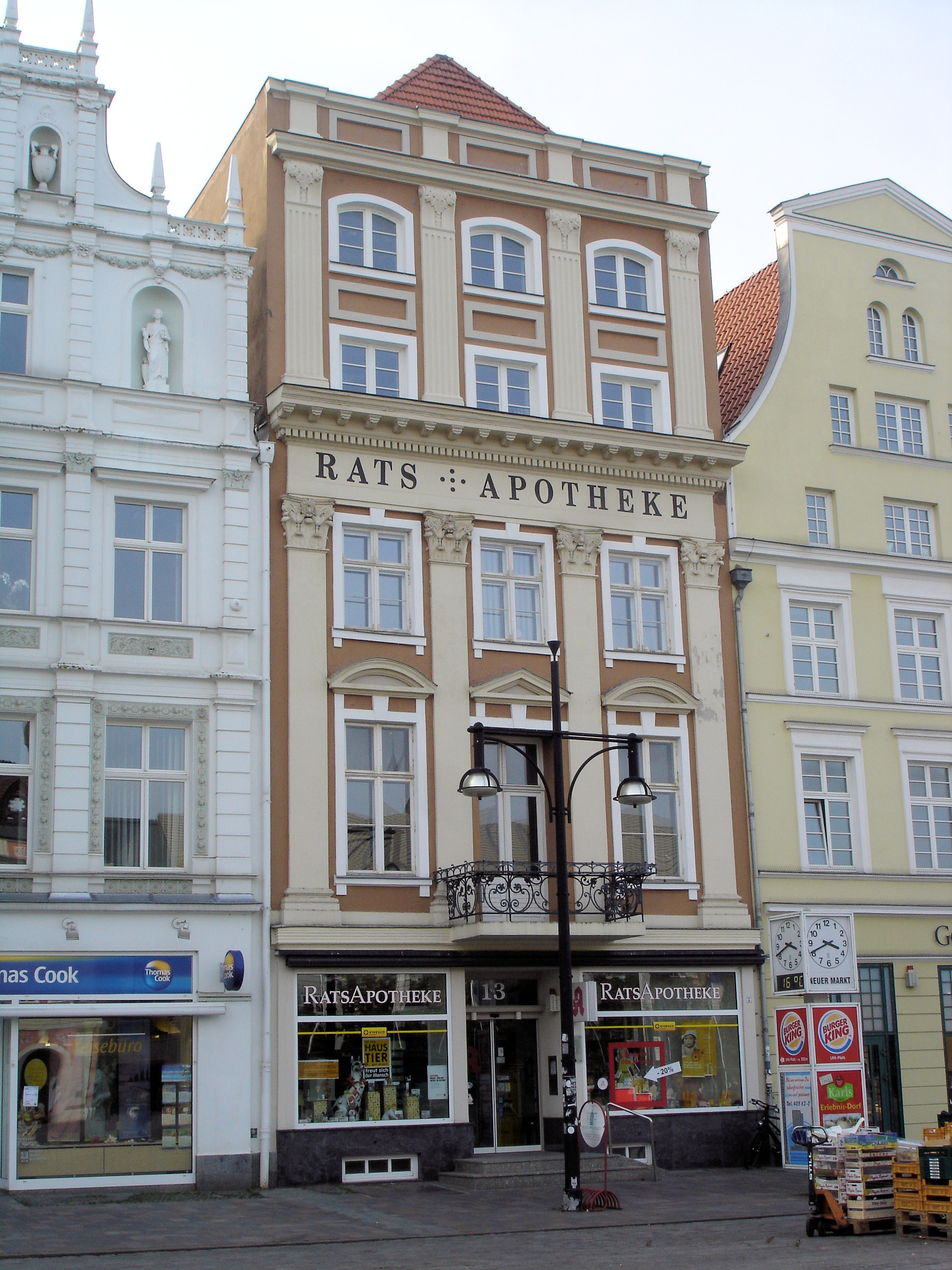 Ratsapotheke in Rostock